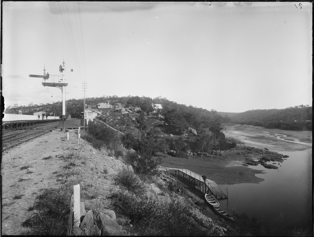 Format: Glass plate negative. Repository: Phillips Glass Plate Negative Collection, Powerhouse Museum Part Of: Powerhouse Museum Collection General information about the Powerhouse Museum Collection is available at Persistent URL: Acquisition credit line: Gift of the Estate of Raymond W Phillips, 2008